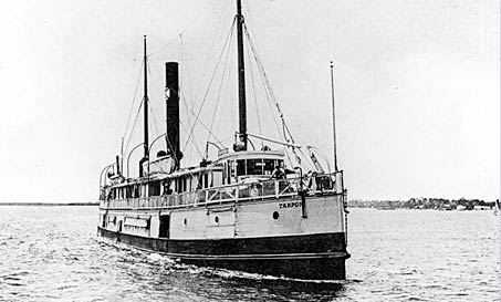 The steamer Tarpon uderway